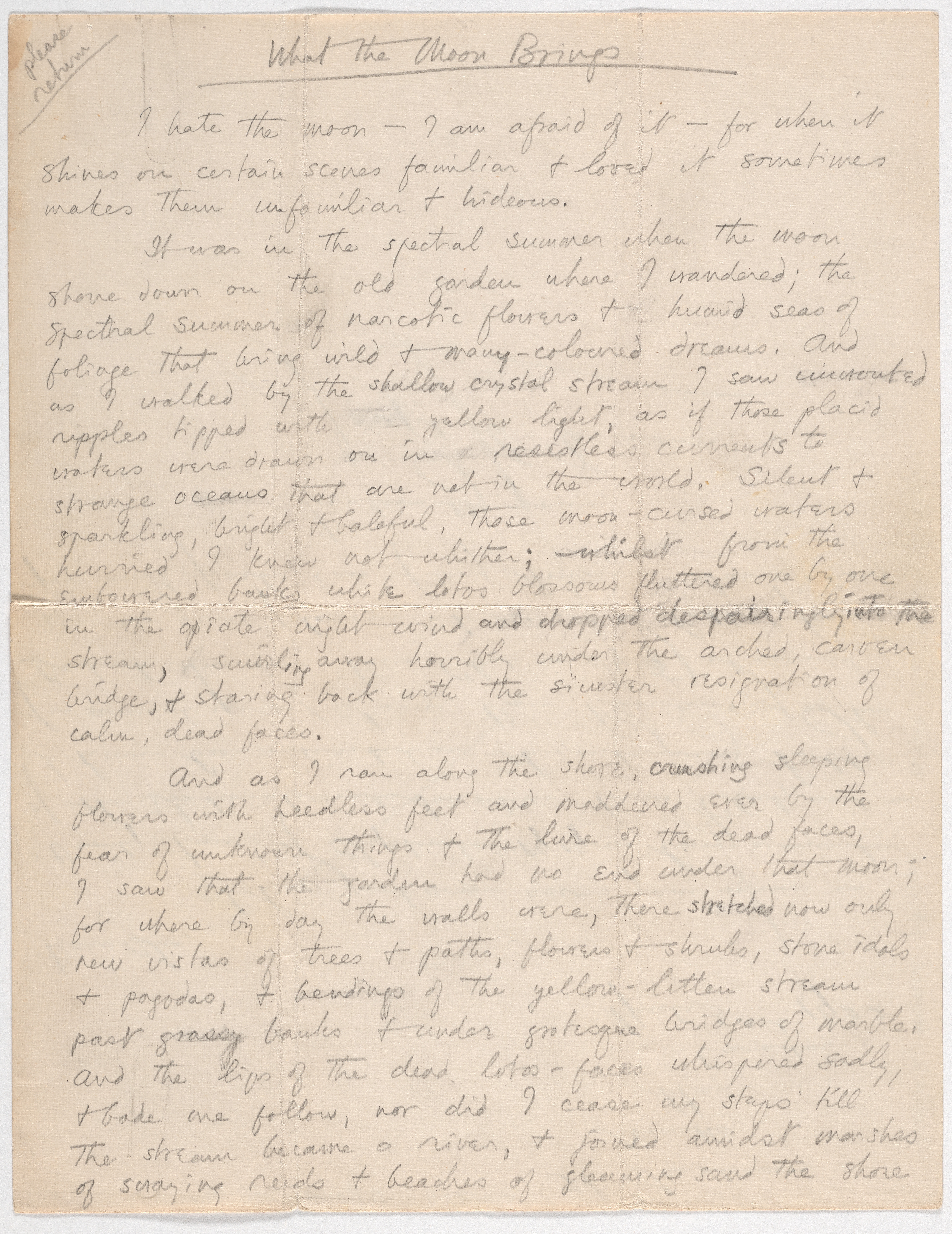 First page of the manuscript What the Moon Brings.